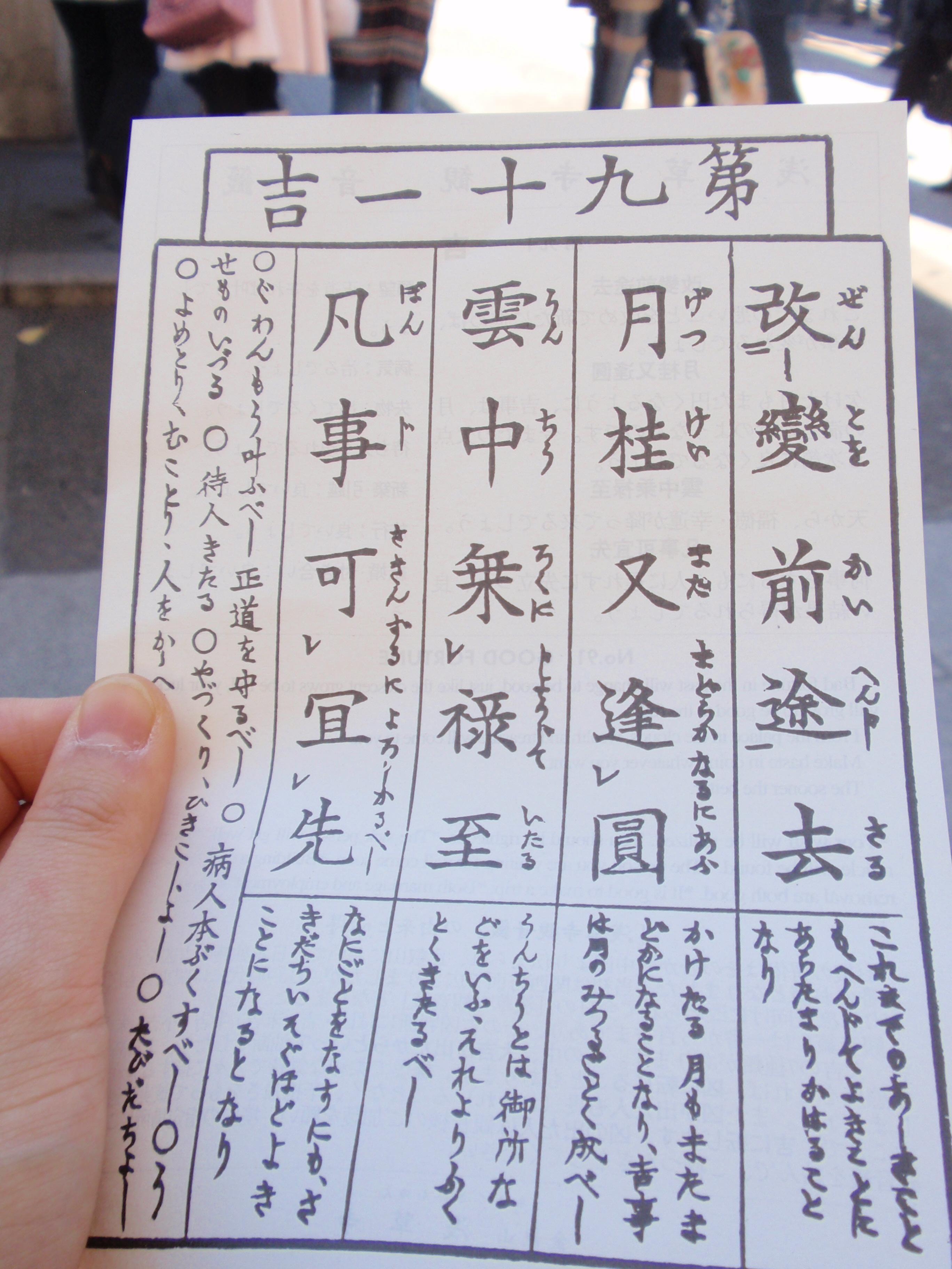 picture of omikuji